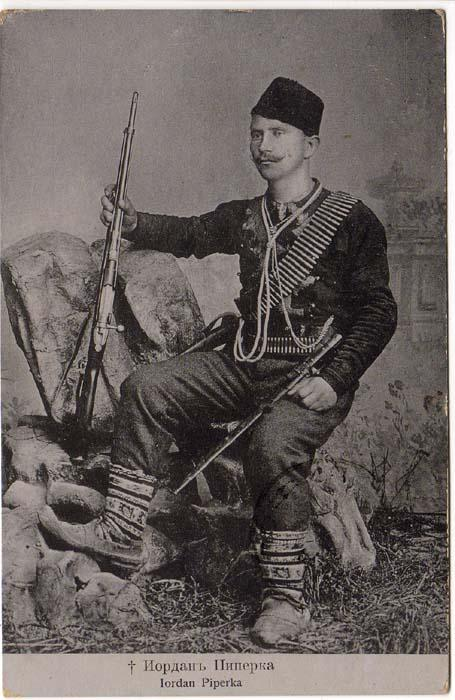 Jordan Piperkata portrait